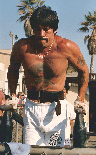 Mexican-American actor Danny Trejo at Muscle Beach.